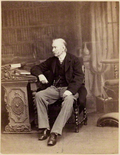 Samuel Hunter Christie (22 March 1784 – 24 January 1865) was a british scientist and mathematician